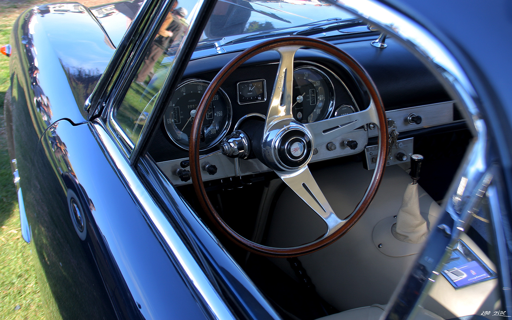 La Jolla Motor Car Classic, Jan 10, 2010 Maserati 5000 GT with bodywork by Allemano. La Jolla Motor Car Classic, Jan 10, 2010.